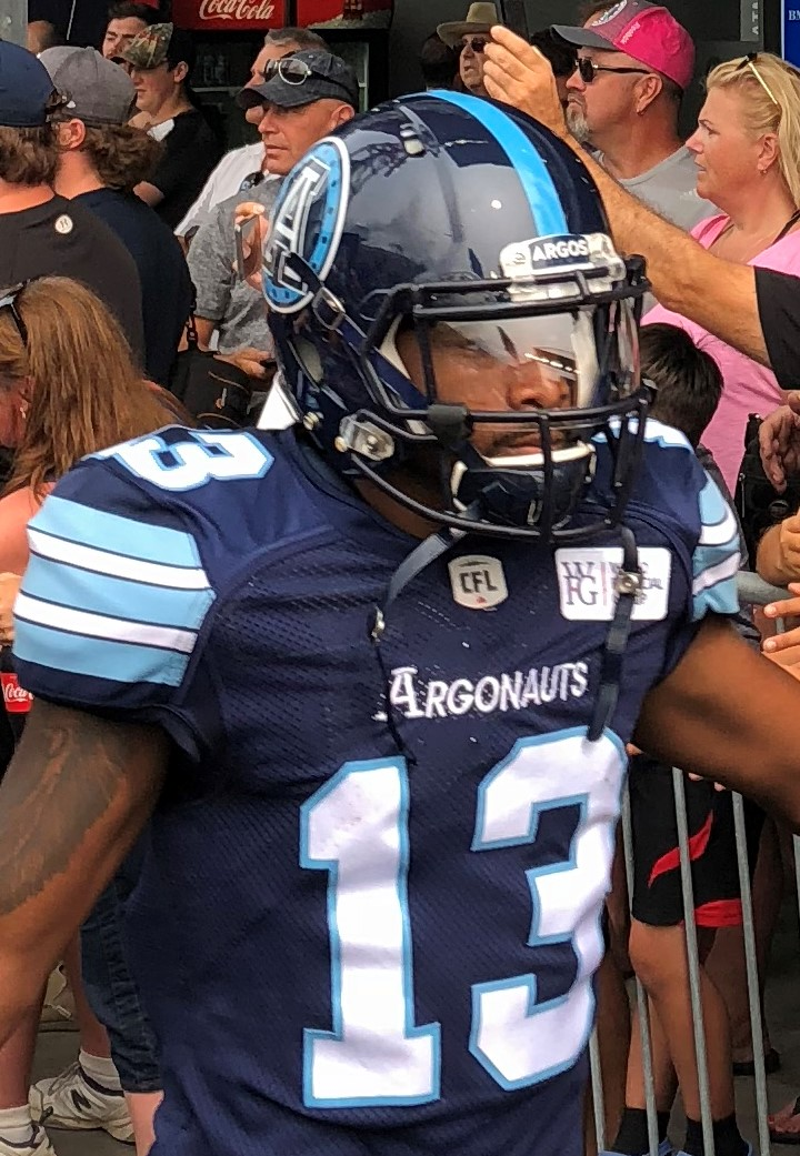 Mario Alford, receiver for the Toronto Argonauts.